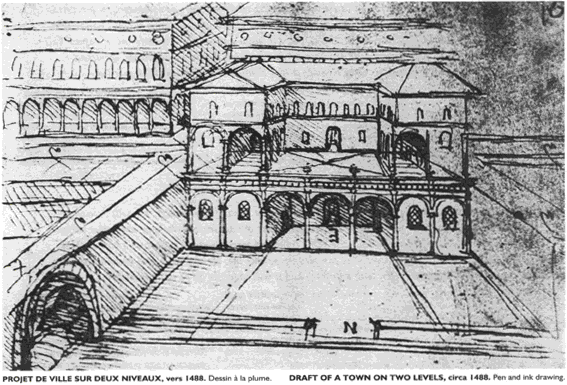 Project of ideal city